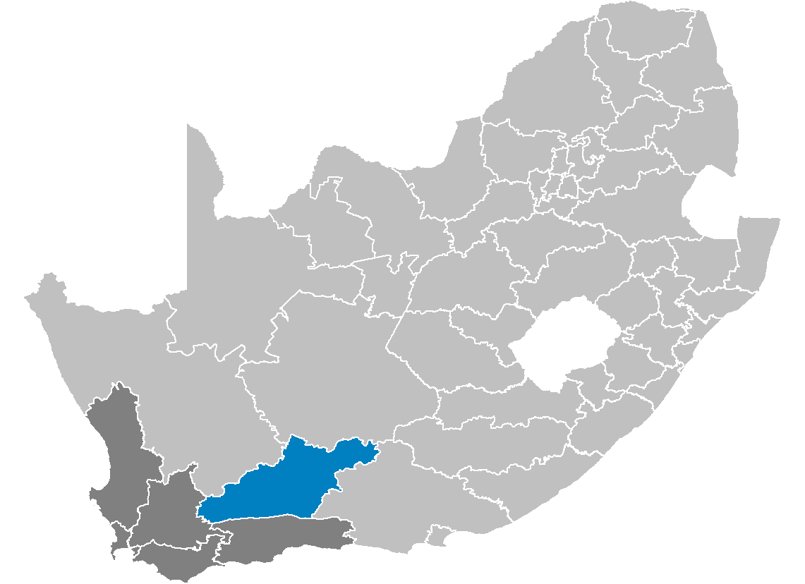 Map showing the Central Karoo District Municipality higlighted within the Western Cape.